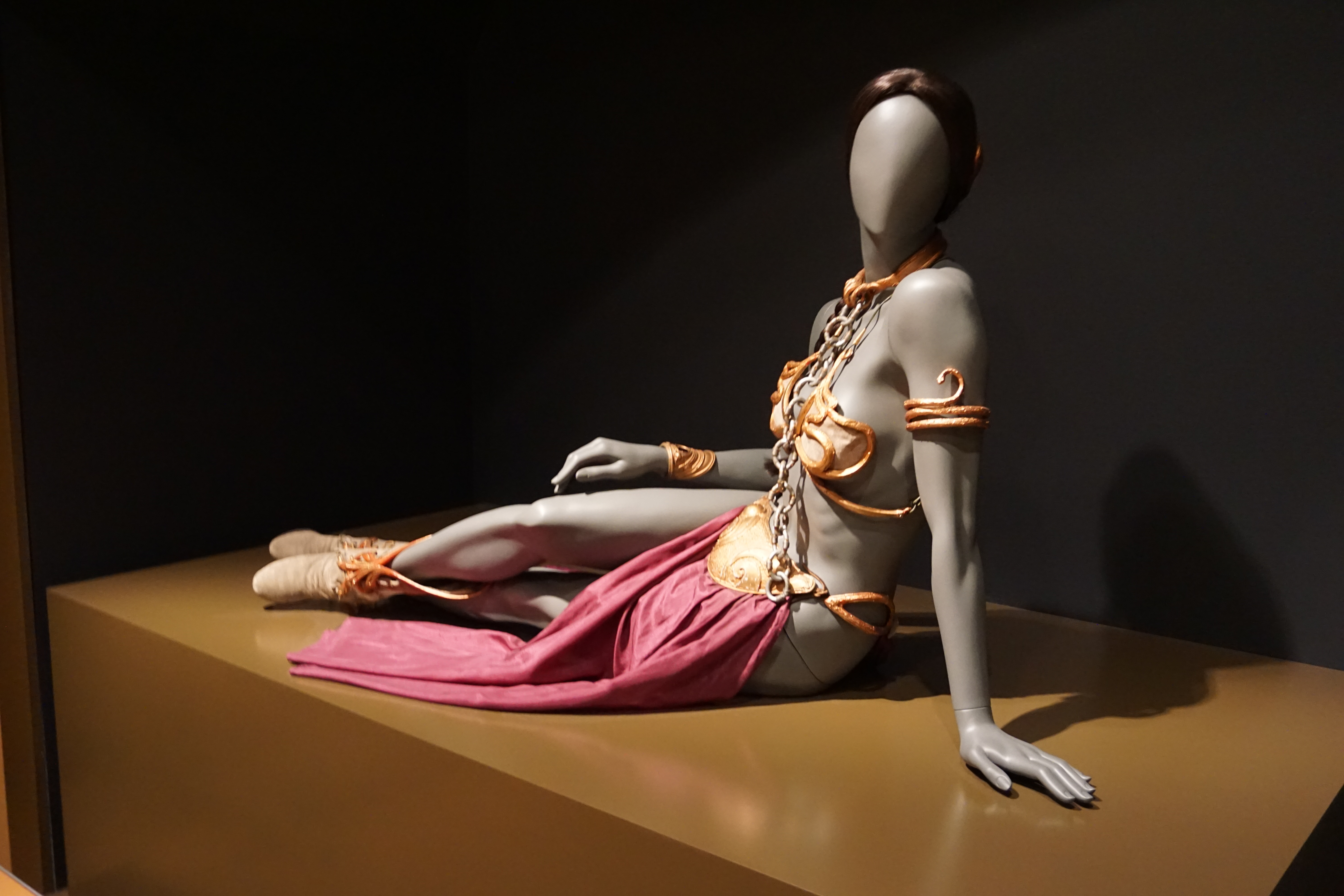 Princess Leia's slave costume from Star Wars: Episode VI – Return of the Jedi on display at the Star Wars and the Power of Costume traveling exhibit at the Detroit Institute of Arts in Detroit, Michigan (United States).